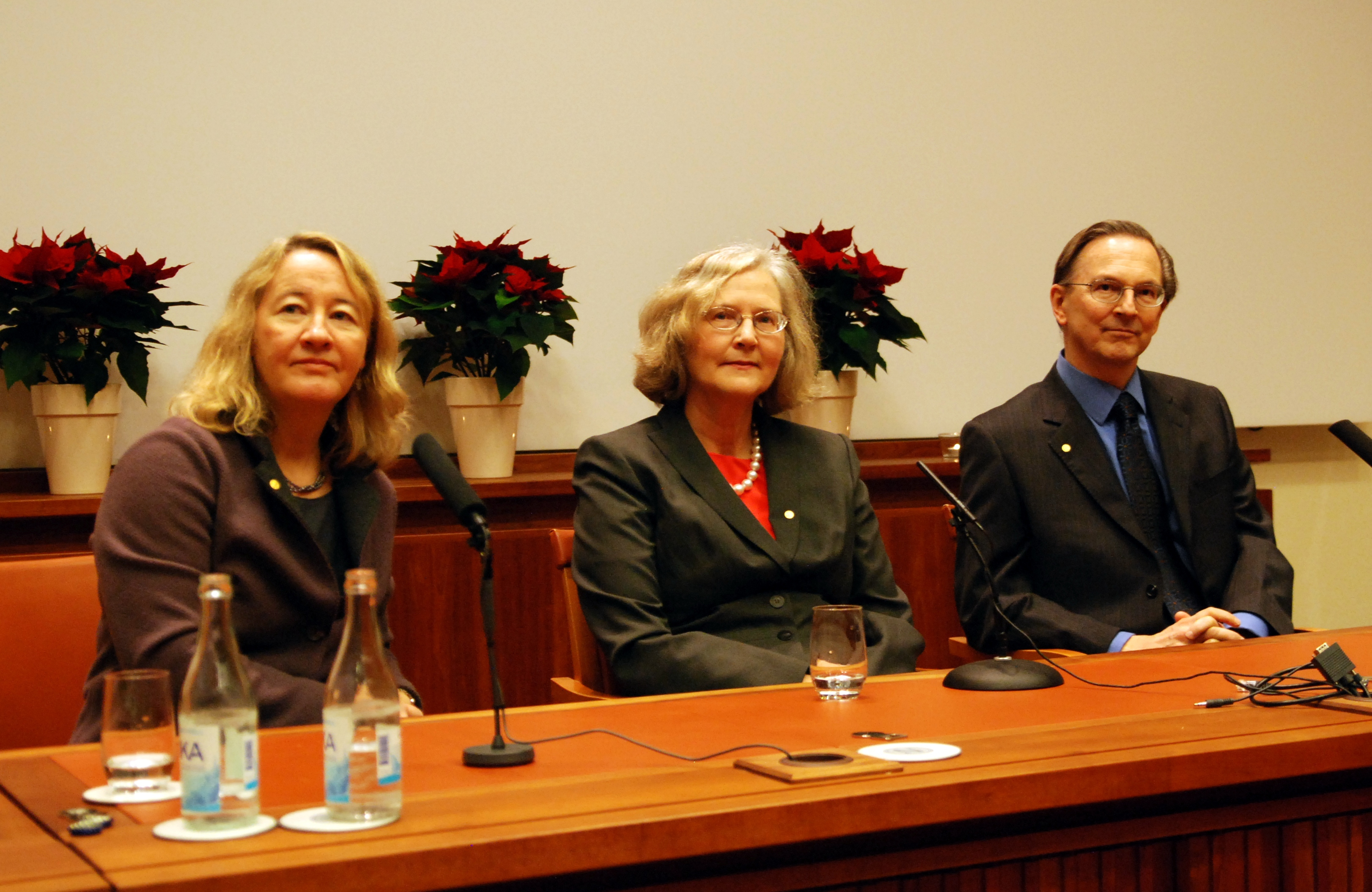 Nobel Prize in Physiology or Medicine 2009, press conference with the laureates: Carol W. Greider, Elizabeth Blackburn, and Jack W. Szostak.